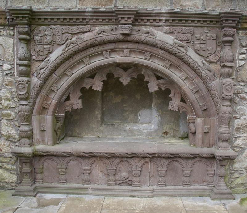 Tarves church monument (Aberdeenshire, Scotland) - tomb of William Forbes, 7th Lord of Tolquhon